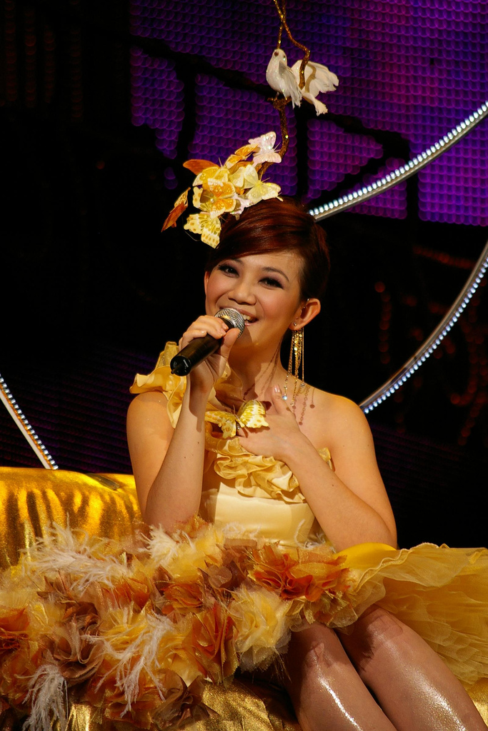 Fish Leong in Hong Kong (2007) depicted person: Fish Leong (age: 28.95)